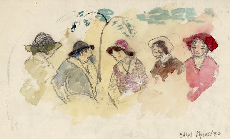 Picture by Ethel Myers